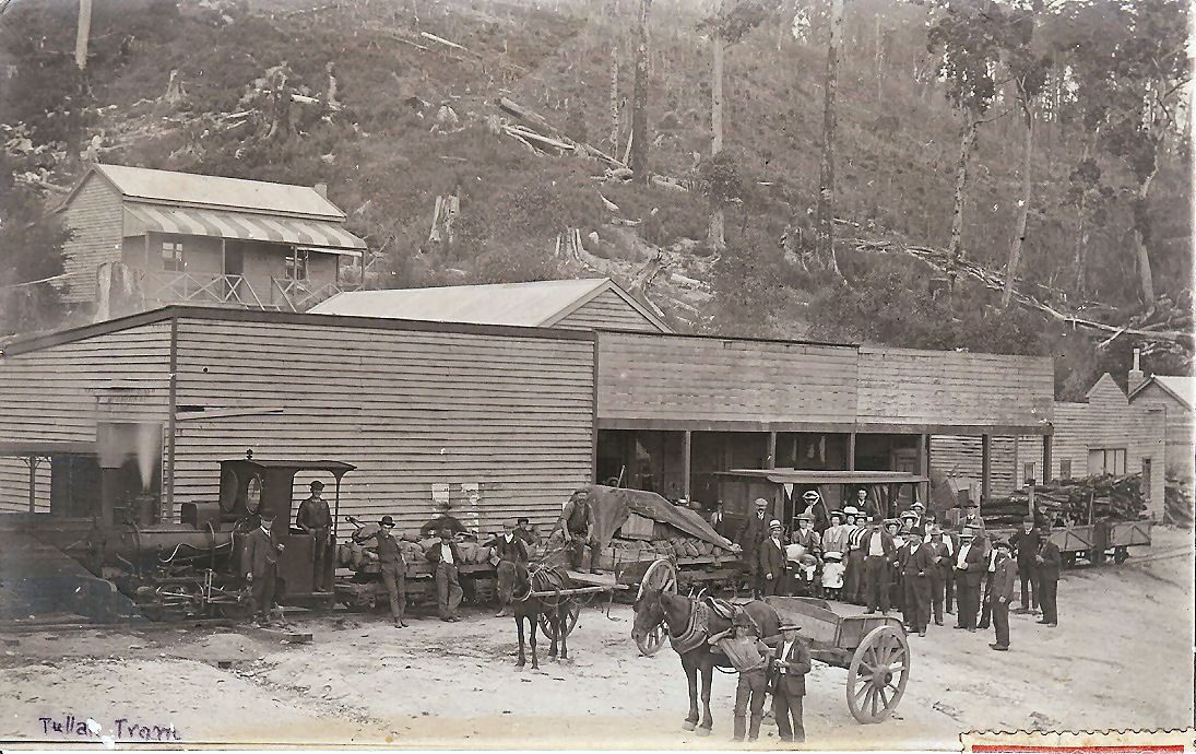 North Mount Farrell Tramway on Empire Postcard Postmarked Mt. Farrell JU 9 09